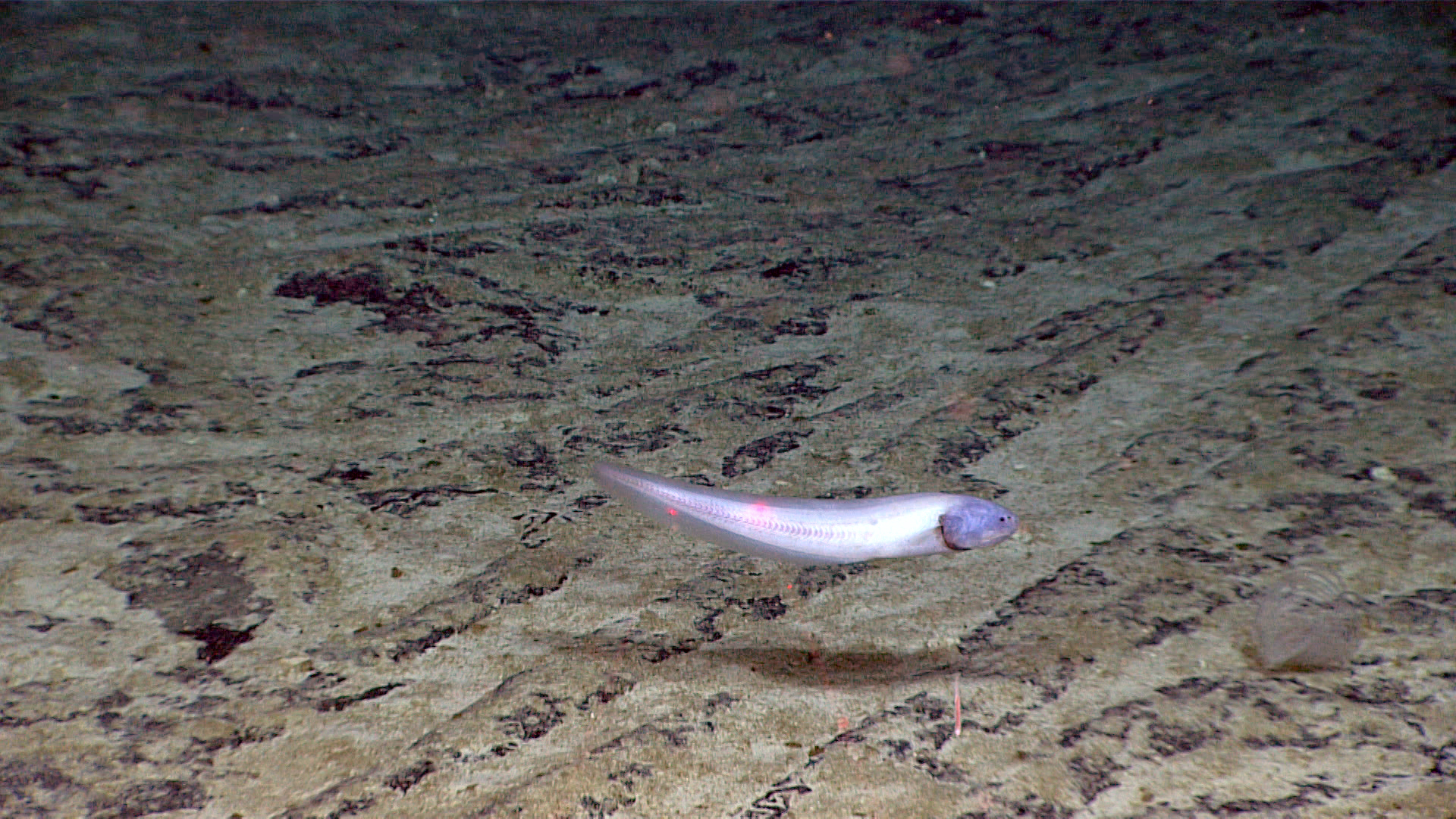 This cusk eel ( sp), seen on Dive 08 of the expedition, was one of the fish we had expected to see during this dive since it is also common further east in the Clarion-Clipperton Zone. Picture taken in the abysses of the Pacific ocean by NOAA mission Okeanos Explorer in 2017.